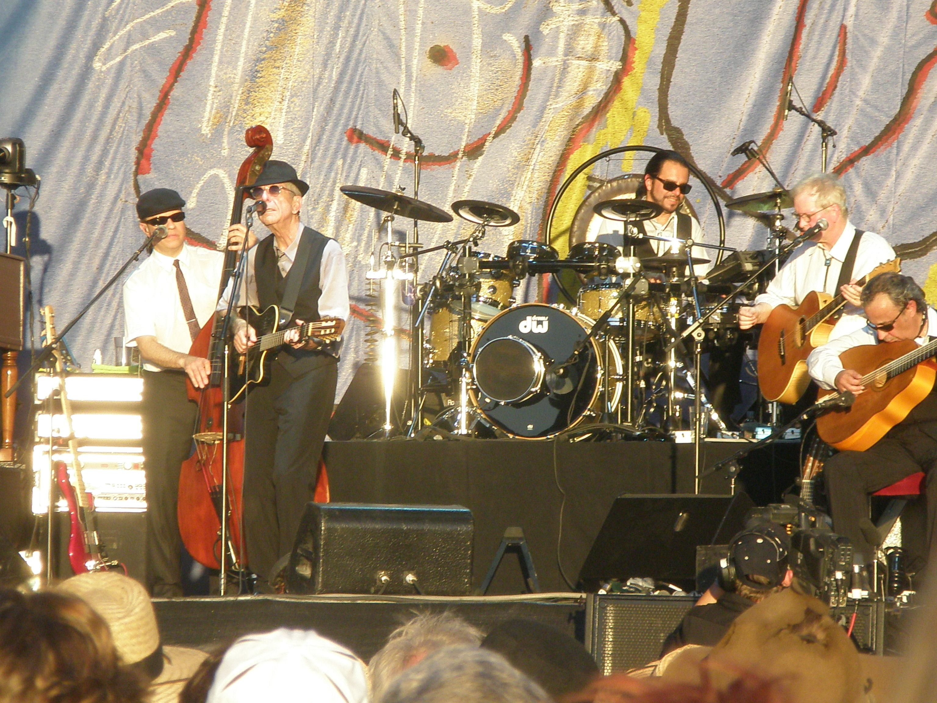 Leonard Cohen, McLarenvale, South Australia, January 2009.